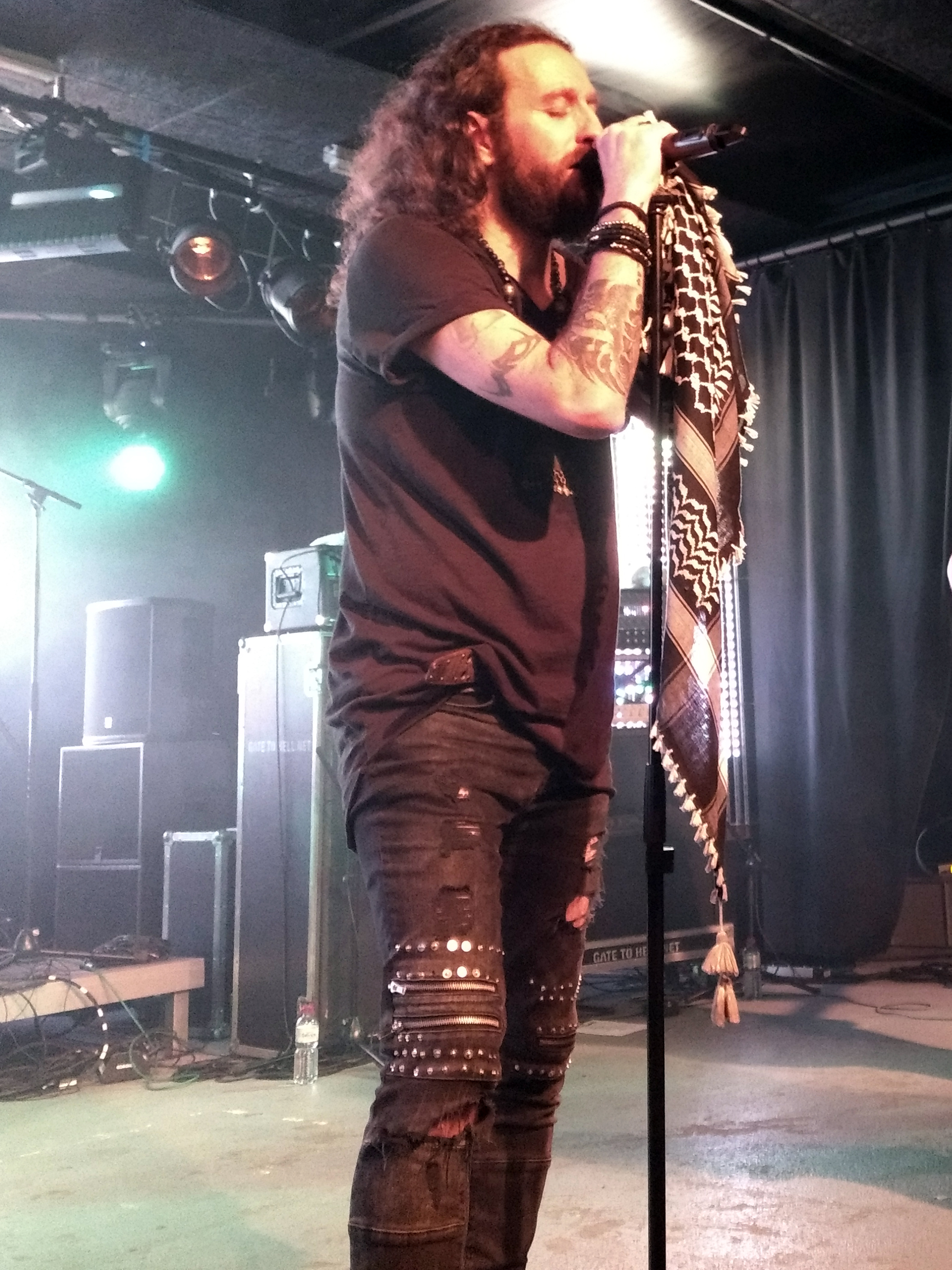 Kobi Farhi, Orphand Land. 2018